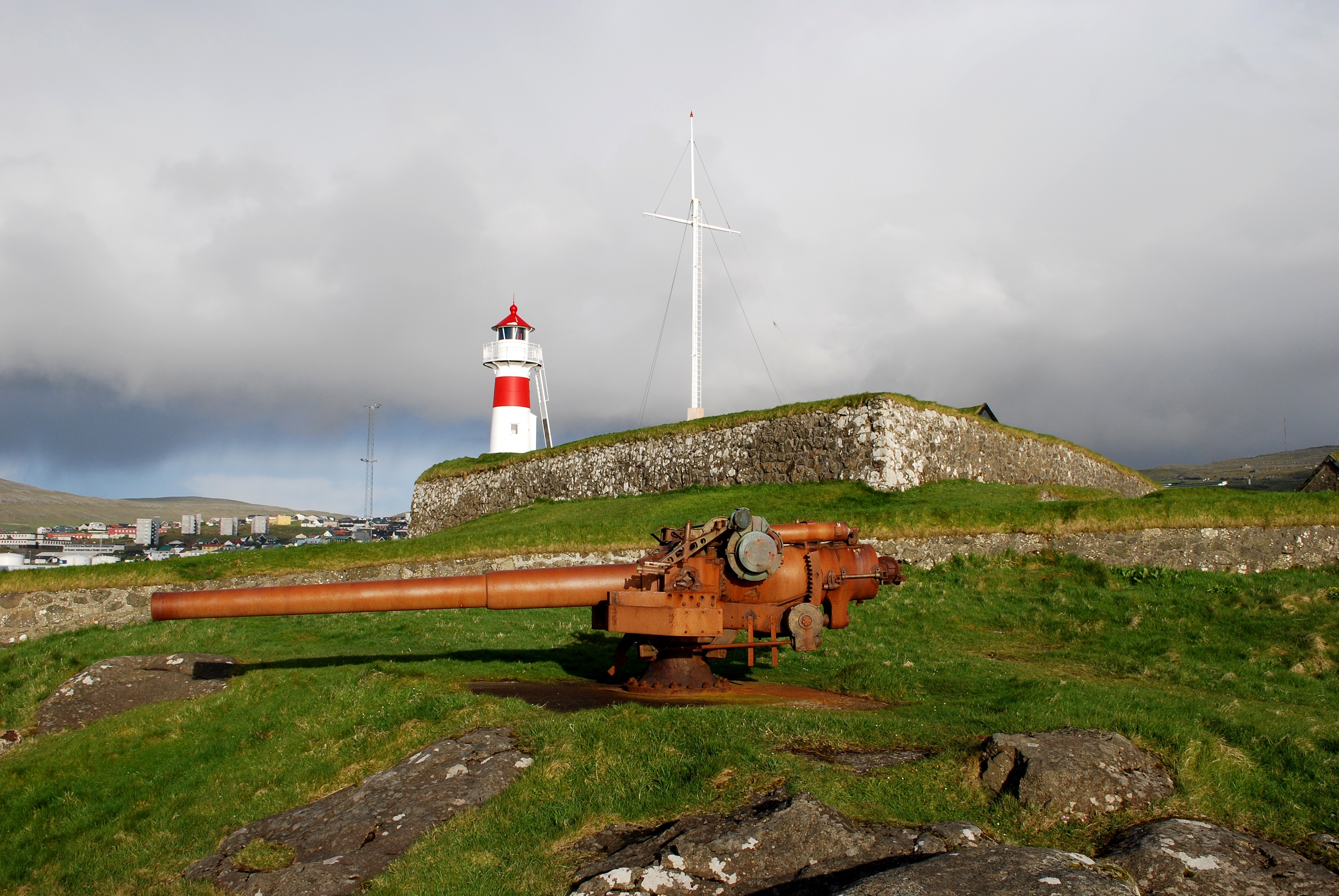 British 5.5-inch coast defence gun at Skansin in Tórshavn , Faroe Islands